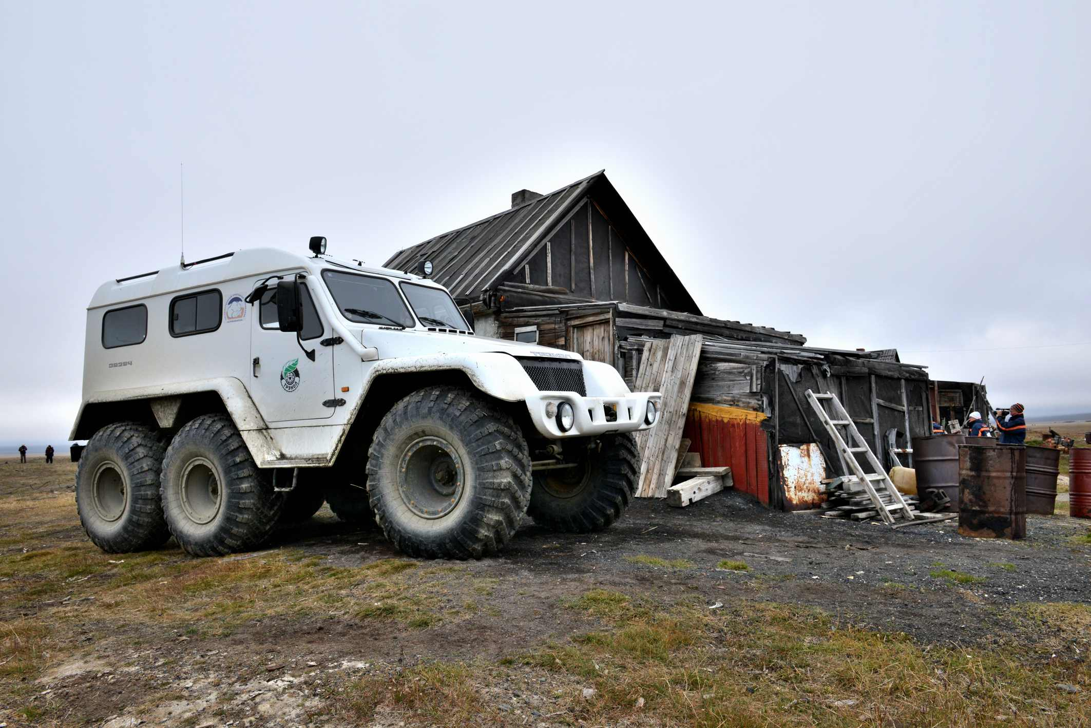 Somnitelnaya: National Park Ranger Station (Wrangel Island, Chukchi Sea, Russia)